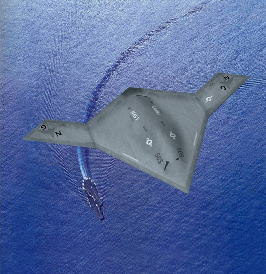 Rendering of an X-47B drone flying over an aircraft carrier